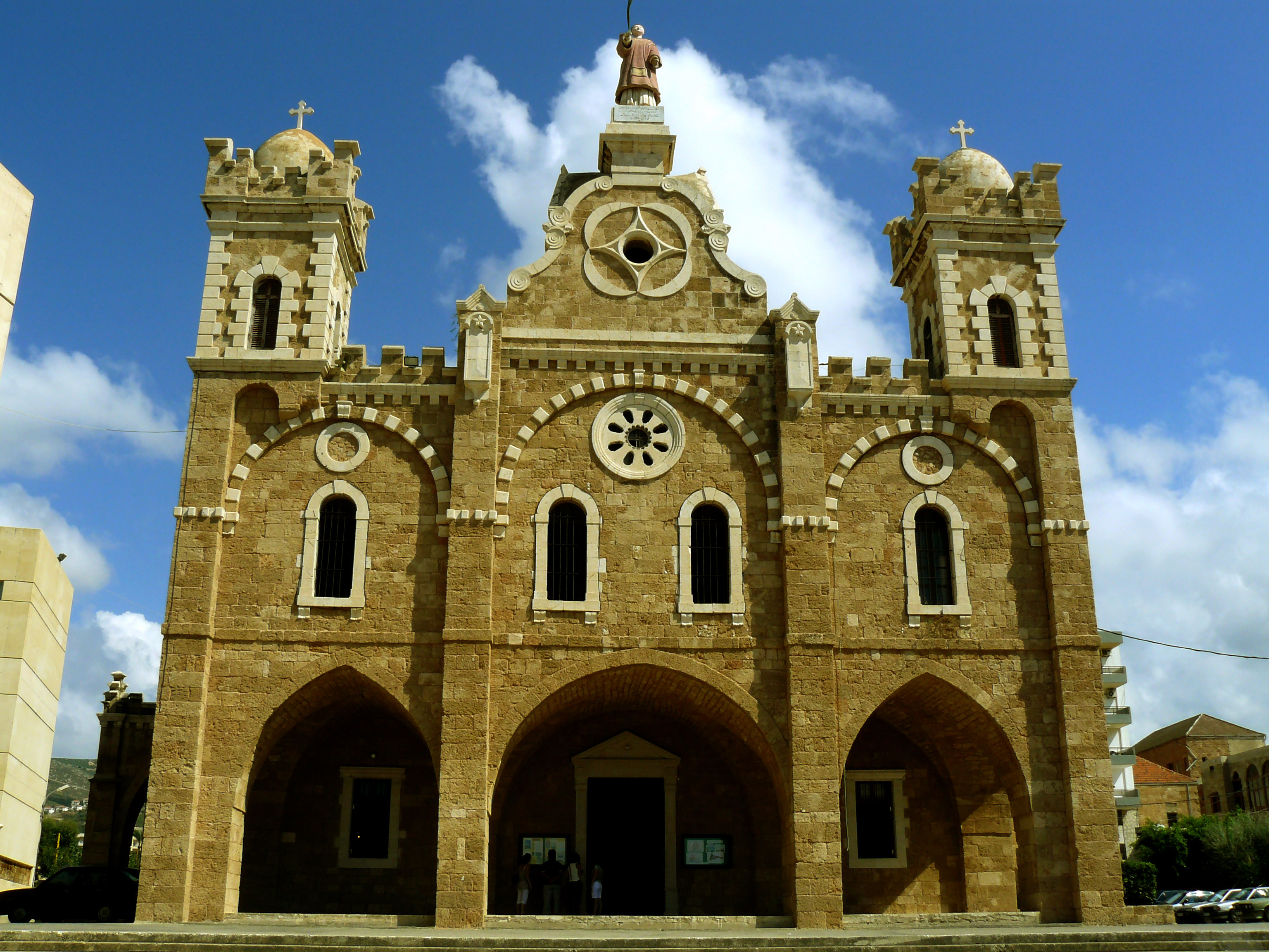 Saint Stephen Cathedral in Batroun